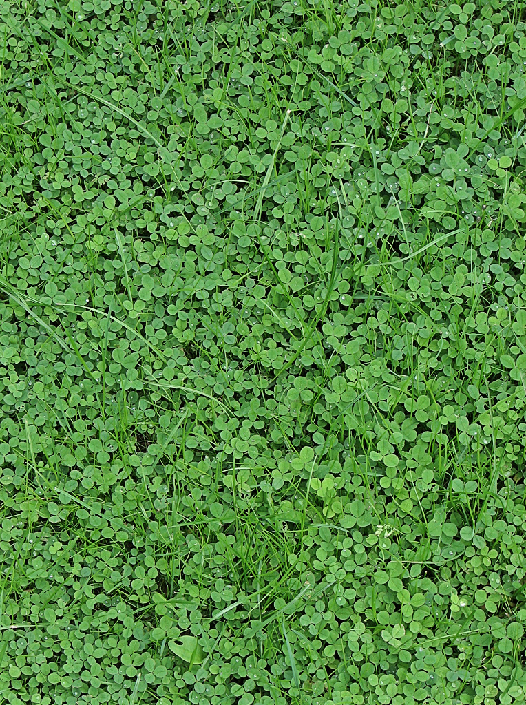 Clower (in detail its White clover)